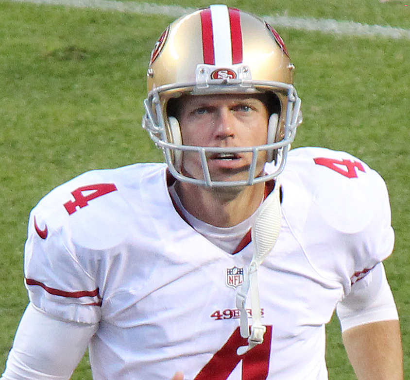 Andy Lee, a player on the National Football League.